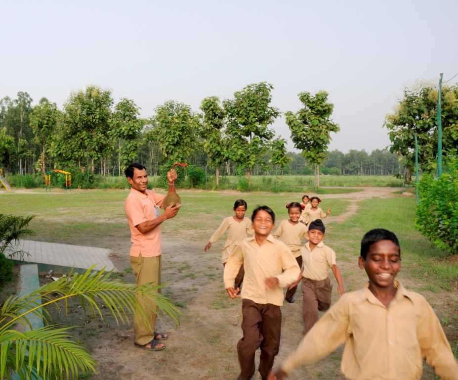 This picture shows the education system and the life of students at the Satya Bharti School.